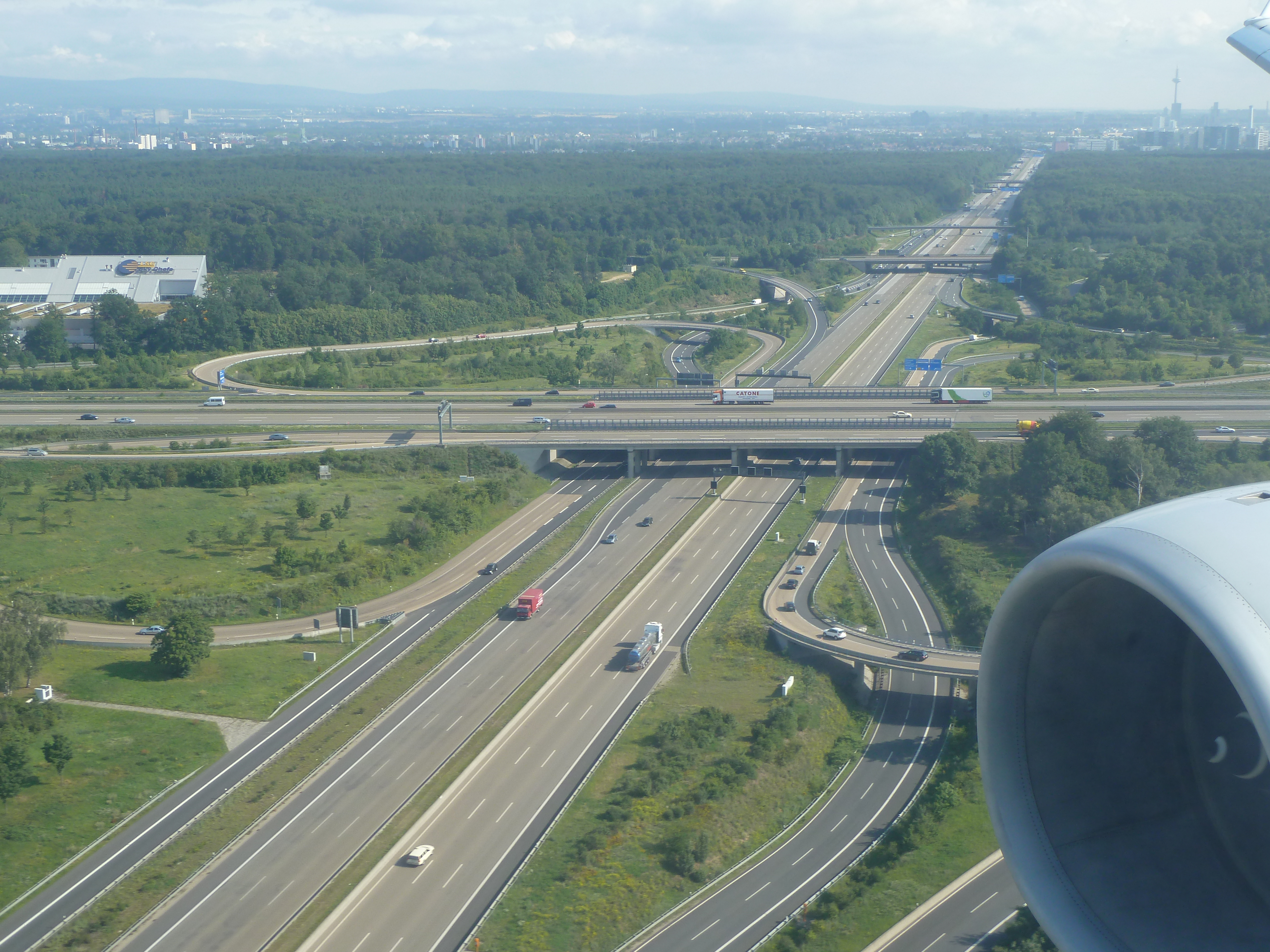 Autobahn A5 in Frankfurt, Germany seen from a plane landing to the airport.